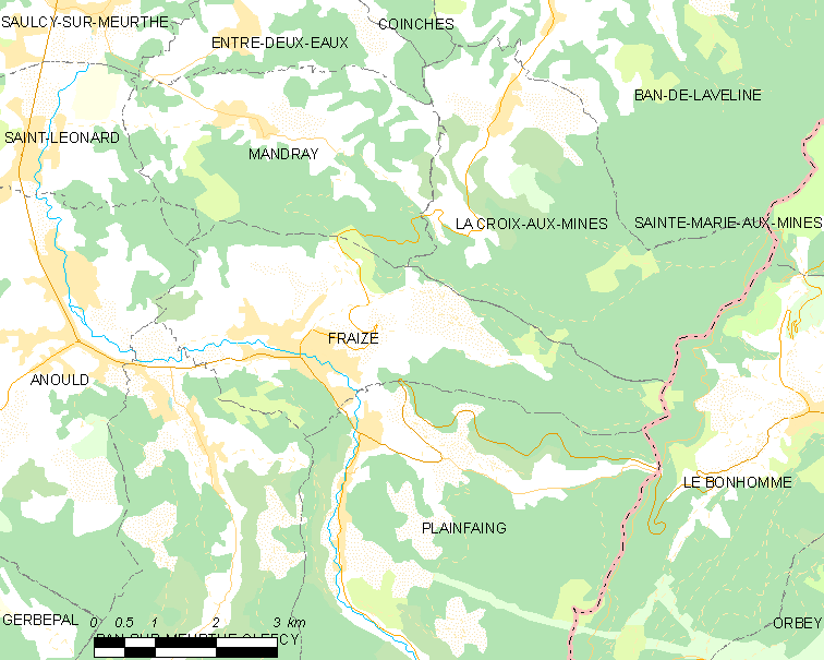 Map of French municipality Fraize